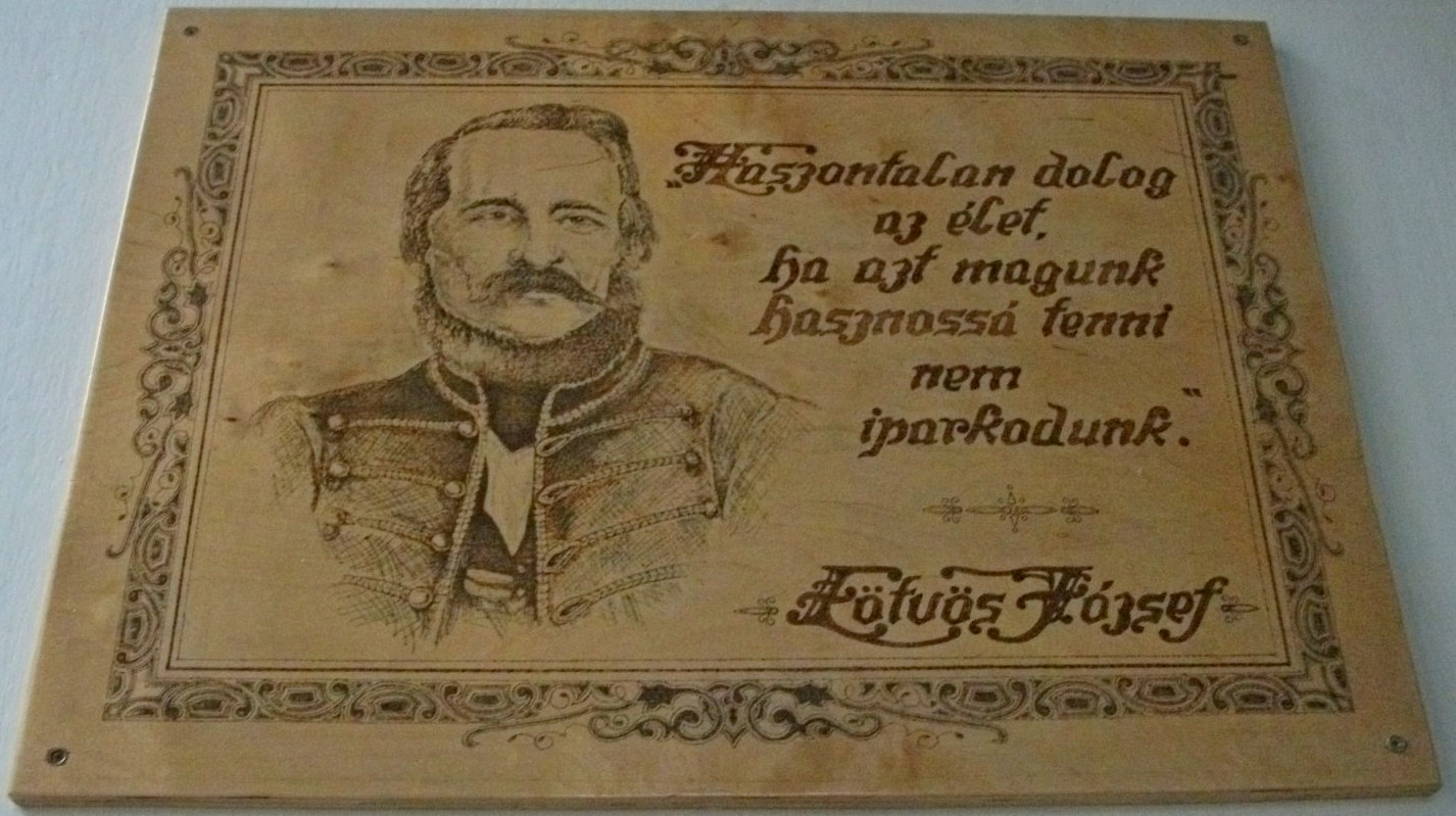 József Eötvös pyrography in Seregélyes (József Eötvös Secondary School).